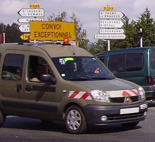 Renault Kangoo I in military service, Dordogne, France